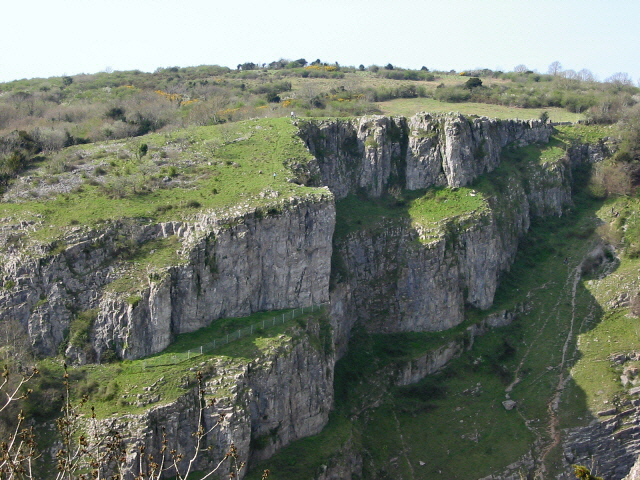 Cheddar Gorge Rock face on the north rim.